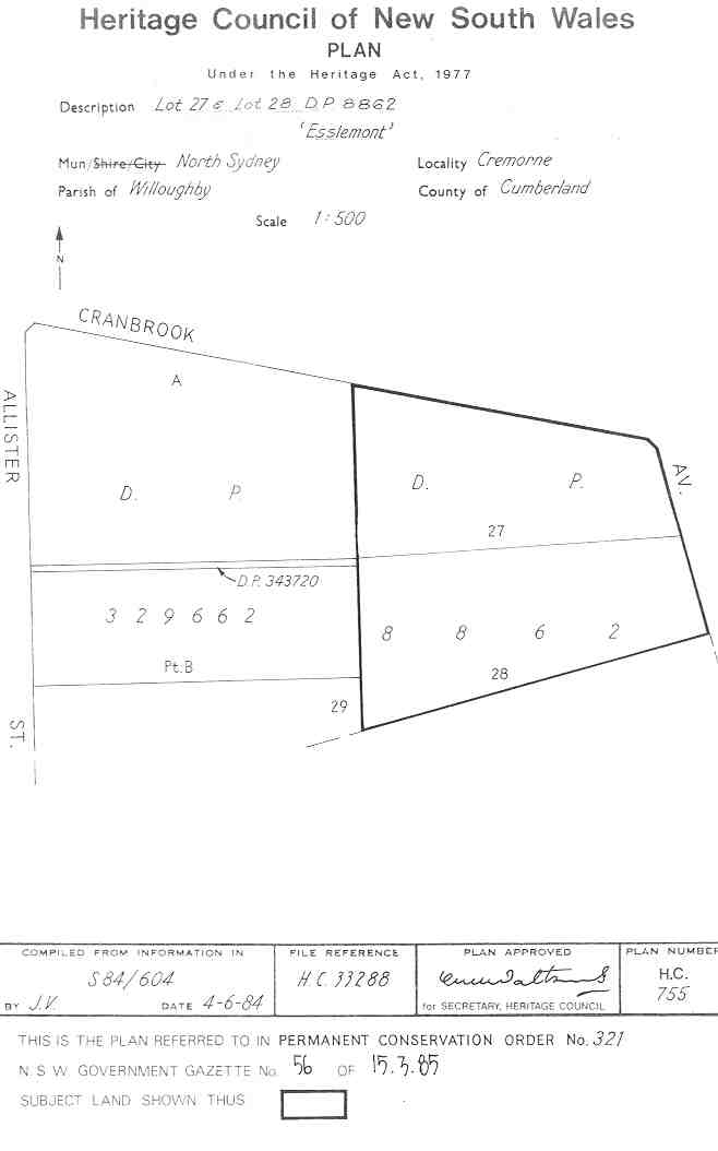 Egglemont: PCO Plan Number 321